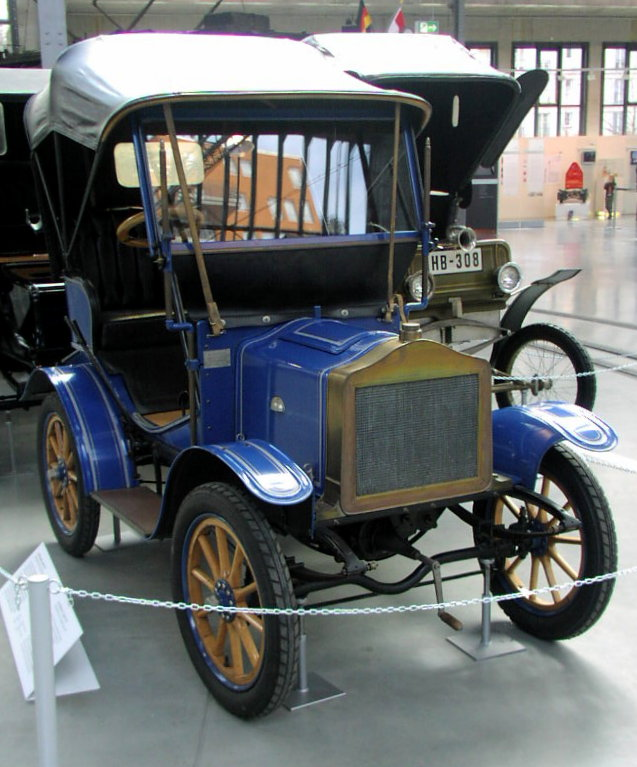 Ley "Loreley" 6/10 hp (1907)